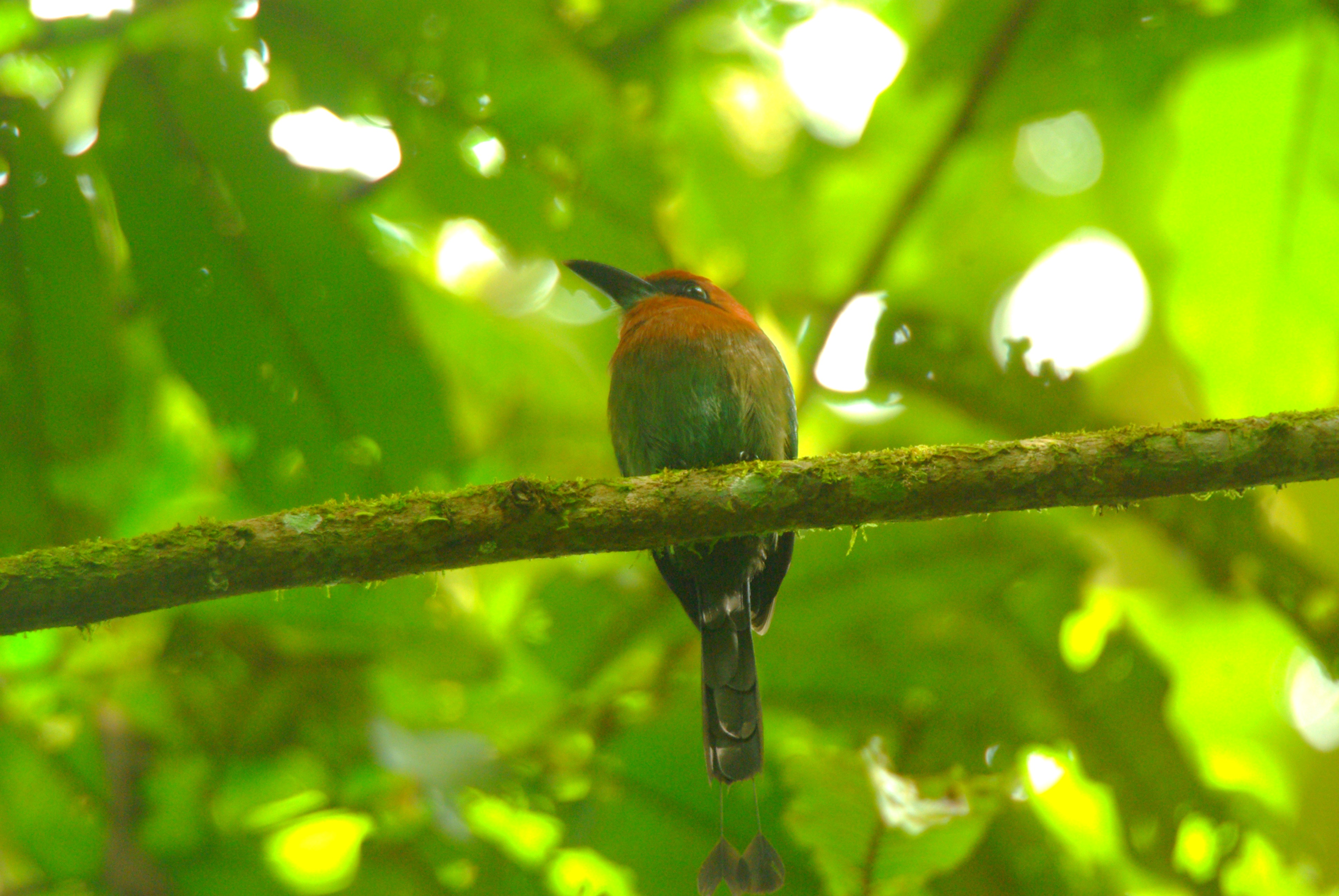 Broad-billed Motmot (Electron platyrhynchum minus). Biological station La Selva, Costa Rica, December 2011